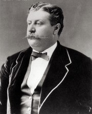 James Fisk (1835-1872)